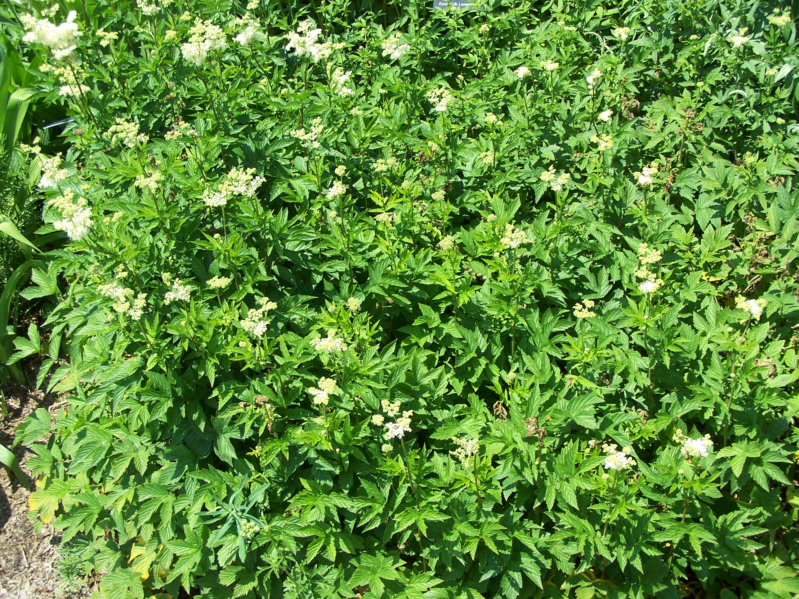 Filipendula ulmaria European meadowsweet at Minnesota Landscape Arboretum